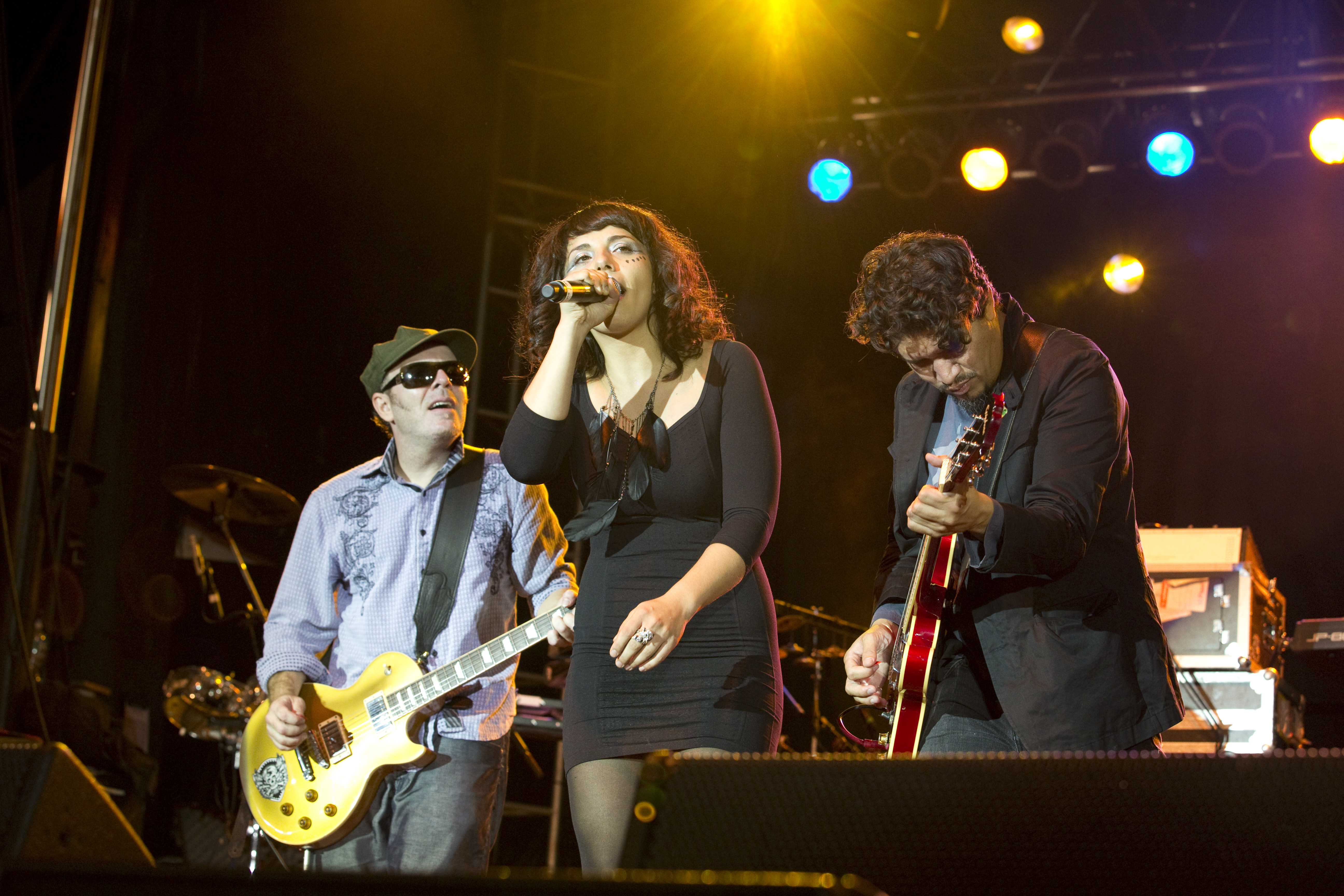 C34P0282